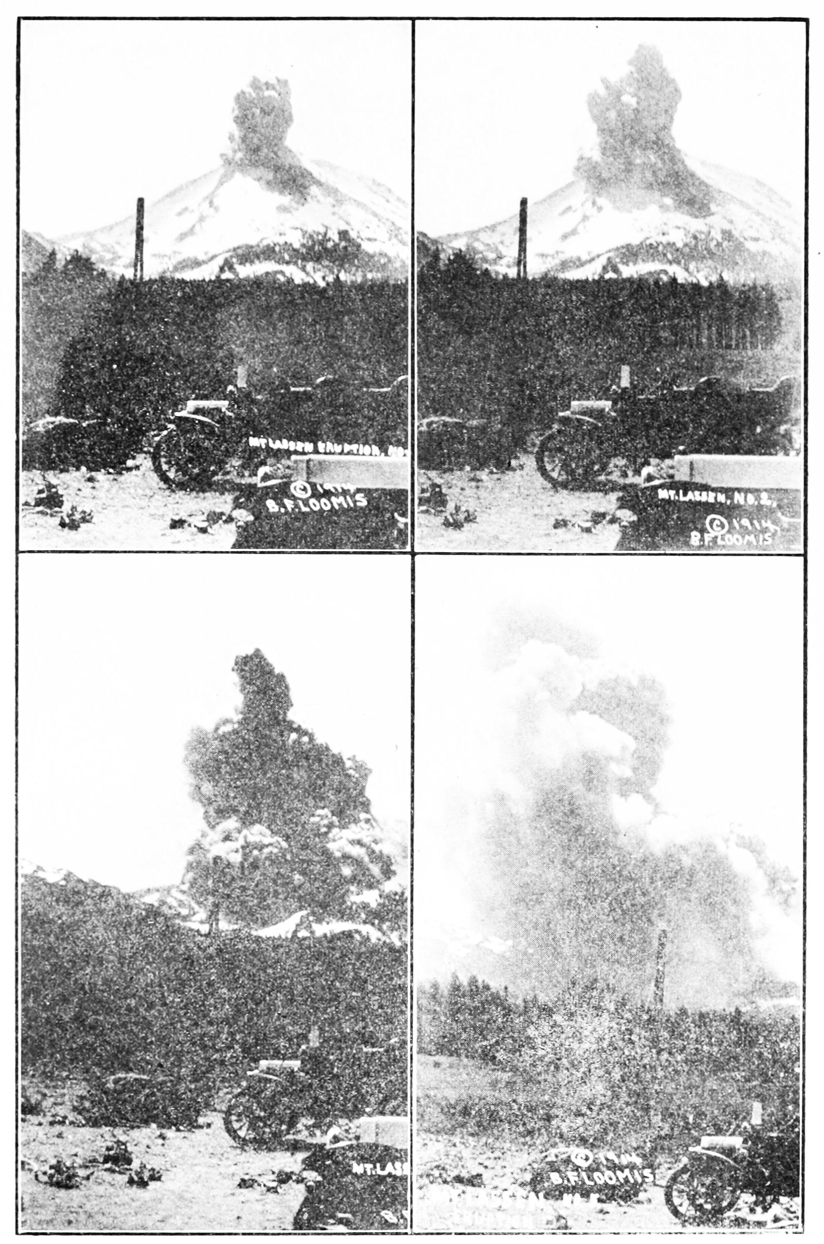 The June 14 1914 eruption of Lassen Peak. This series, showing four stages in the eruption beginning at 9:45 a.m., was obtained by Mr. B. F. Loomis, of Viola, from a point about six miles to the northwest at an elevation of nearly 5,000 feet. The time interval represented by the four views of the plate is about fifteen minutes.